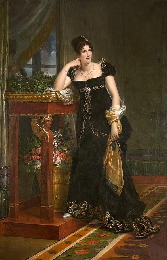 Marie-Madeleine Maret (1780-1827), née Lejeas, duchesse de Bassano